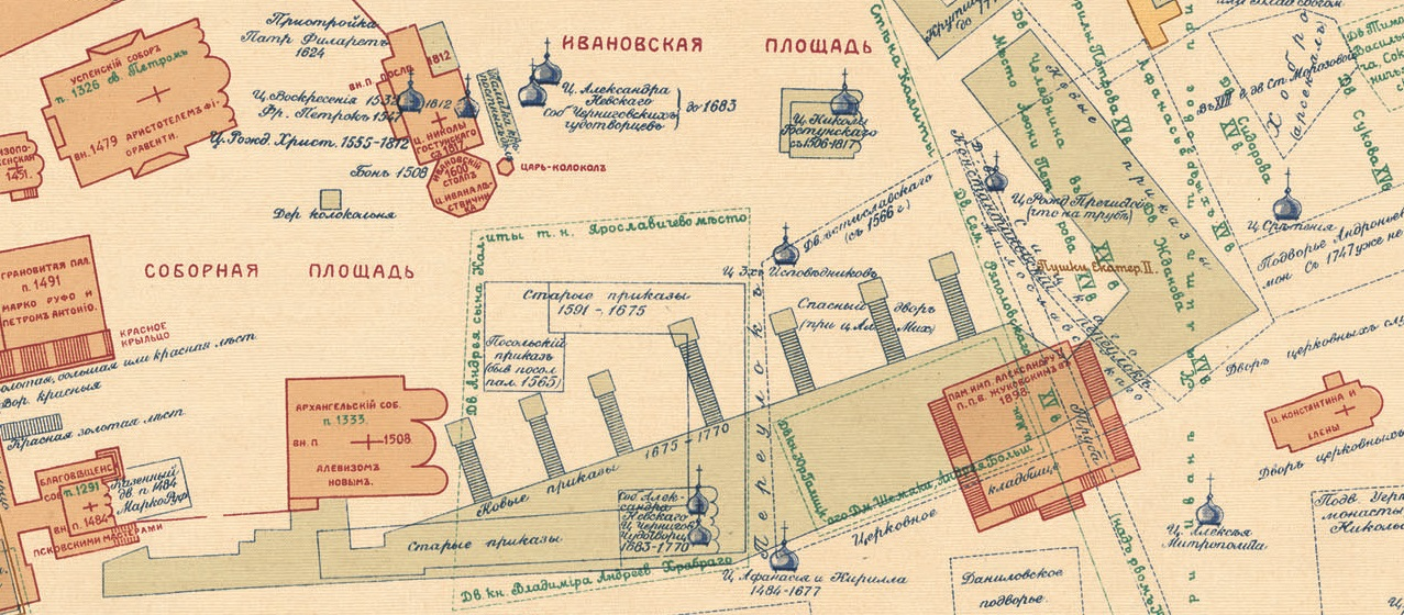 A fragment of the historical map by Bartenev with location of the historical Prikazy building inside Moscow Kremlin